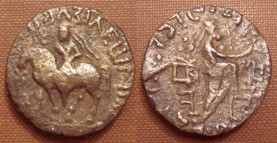 Coin of the Indo-Parthian king Abdagases. Personal photograph 2007.